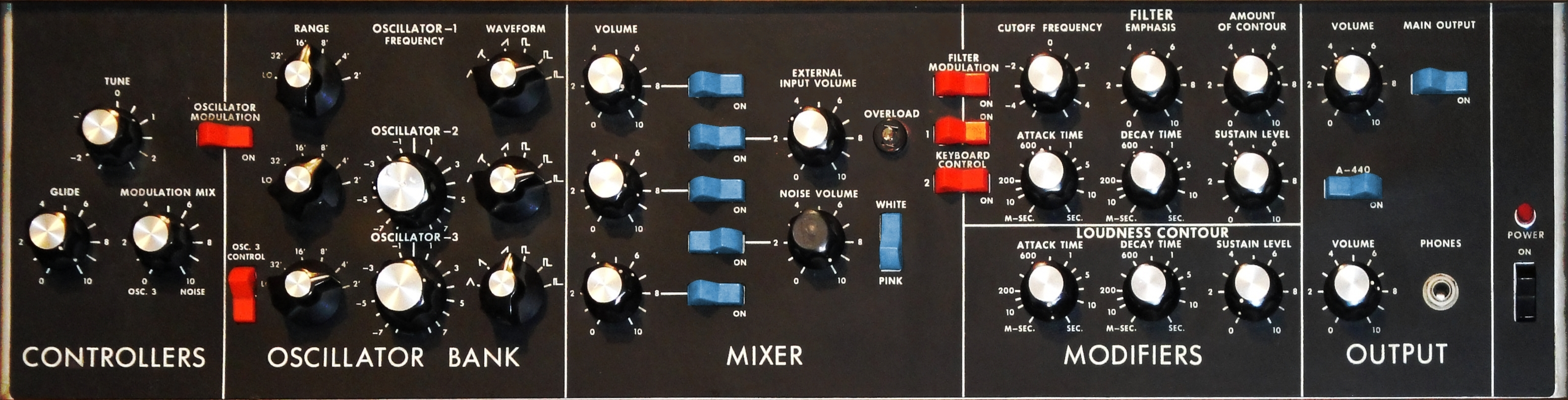 minimoog panel Moog Music Inc, Williamsville, NY/USA, 1970s From the Collection of Van Taylor Displayed at Buffalo Museum of Science